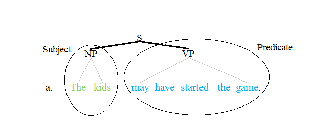 Predicate tree 1